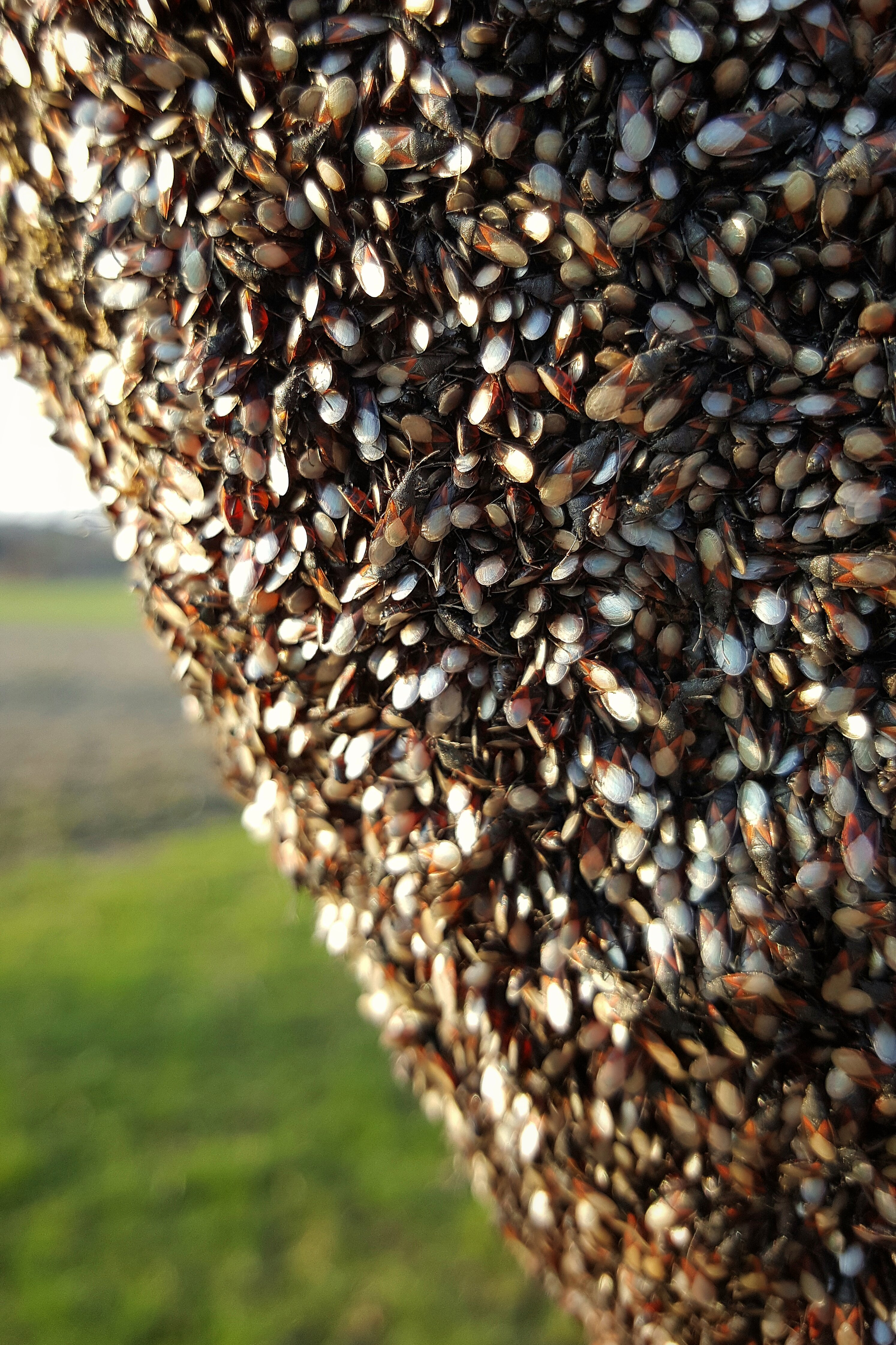 Oxycarenus lavaterae bugs aggregate on a linden tree in the spring